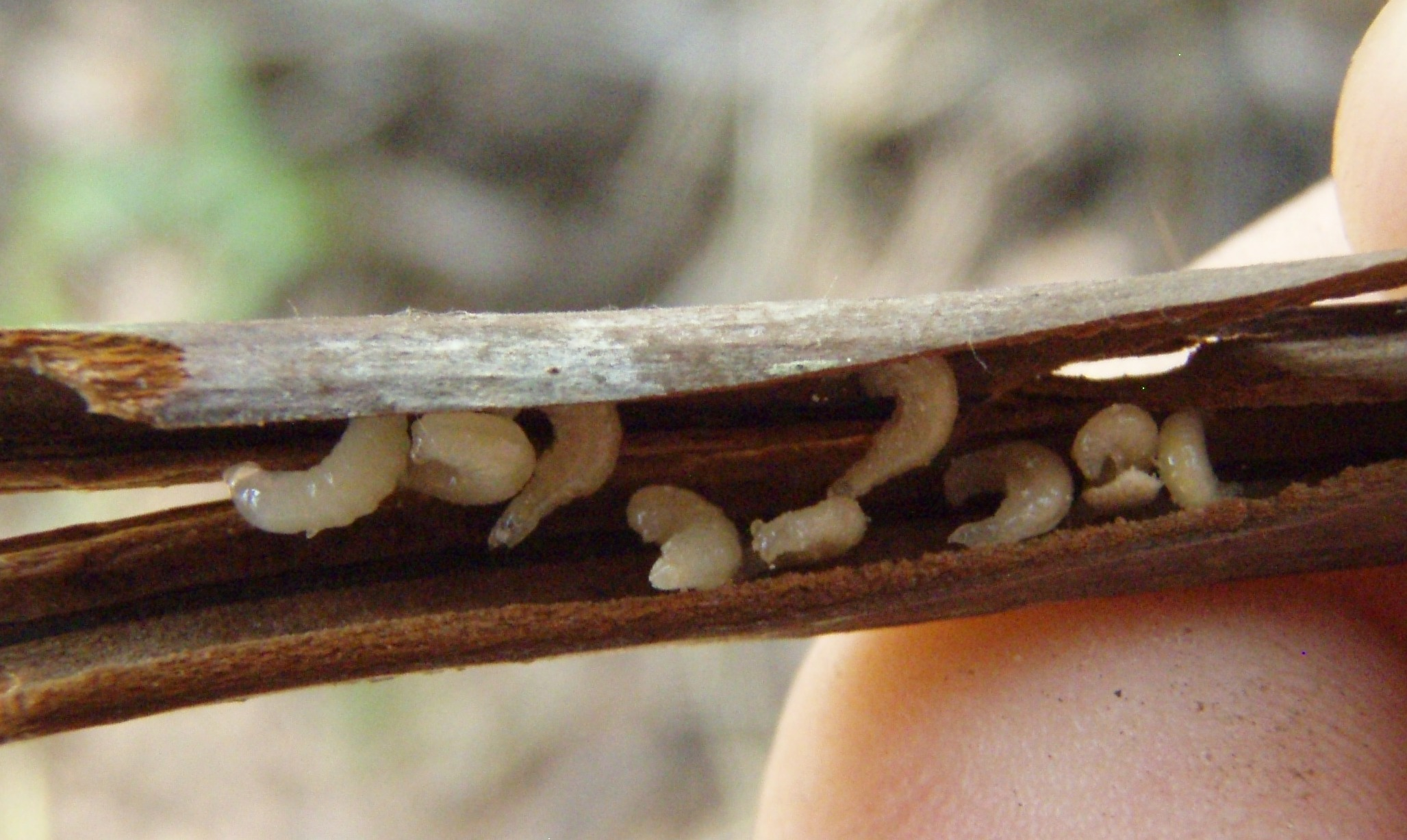 opened nest of Braunsapis sp. in spape of fern sf. Drynaria. There are some larcae and eggs, In nest there was about five females. Nests of bees from tribe Allodapini hasnt cells separated by partitions . island Pra Thong, Thailand